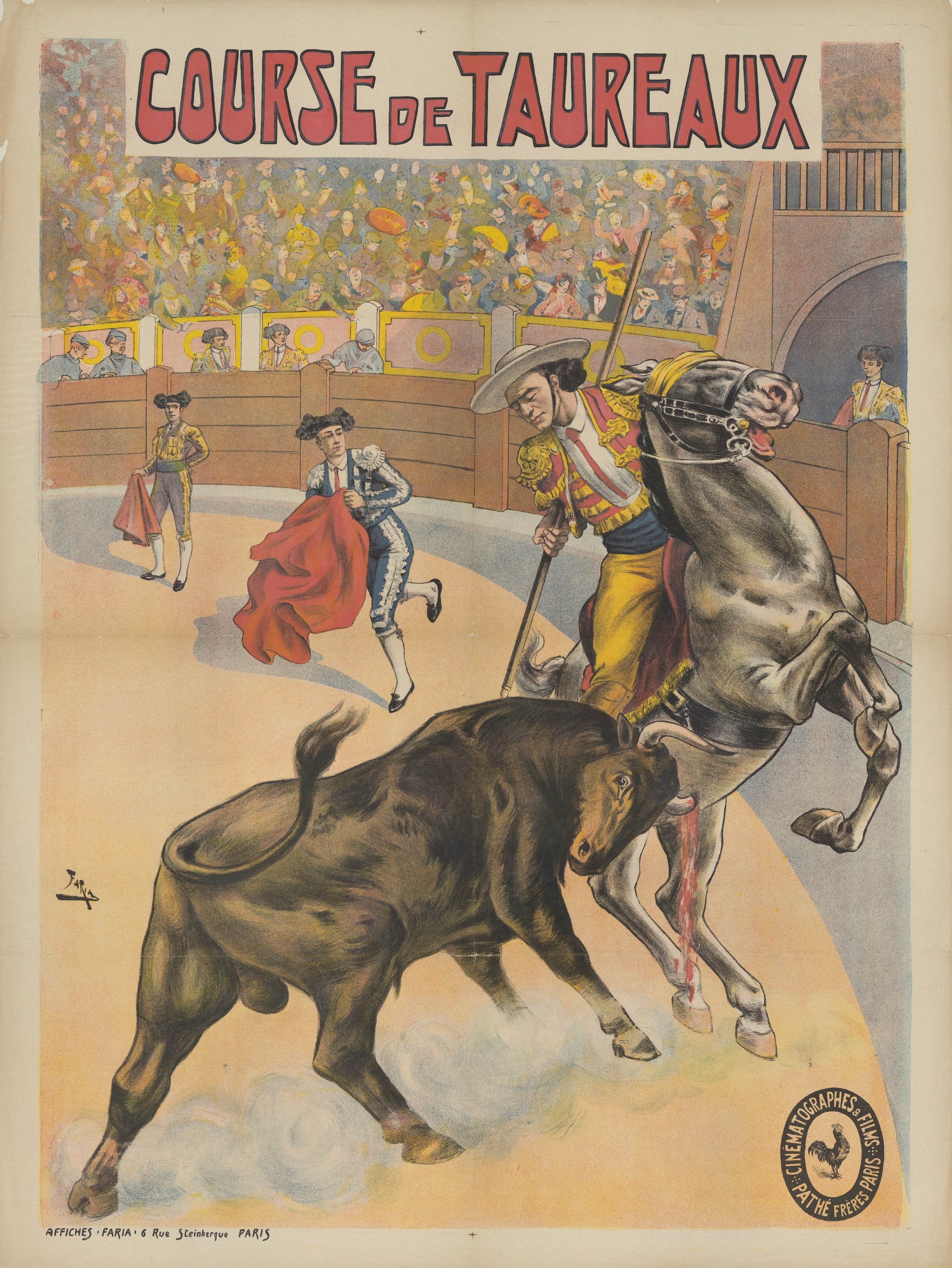 Poster for Pathé Frères (France). Film: Course de taureaux à Séville (FR, director ?, 1907, Pathé Frères Printer: Atelier Faria Litho